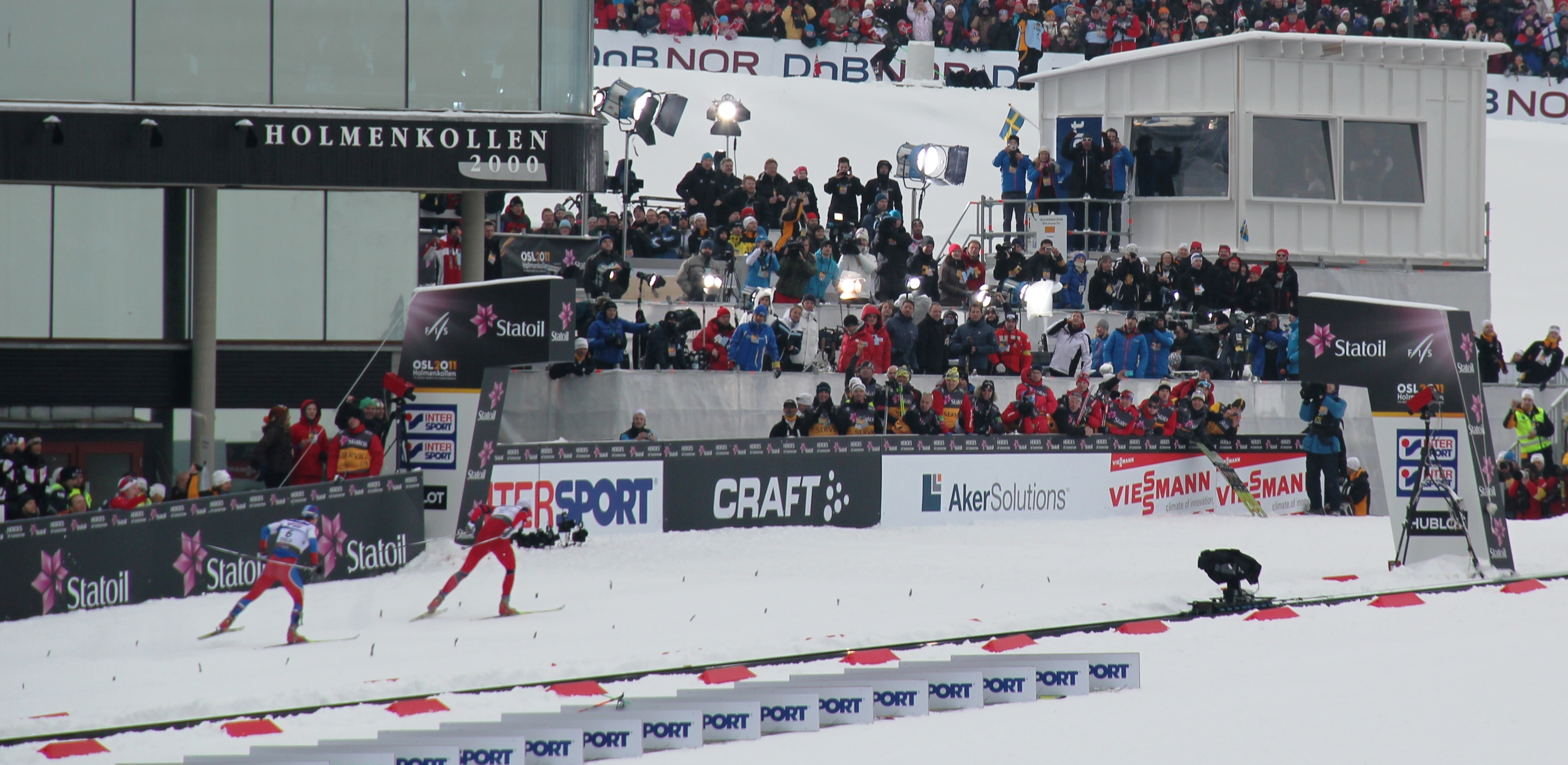 Defending champion, and winner, Petter Northug (NOR) winning the 30 kilometre pursuit at the FIS Nordic World Ski Championships in Oslo. Maxim Vylegzhanin (RUS) in pursuit to capture silver.